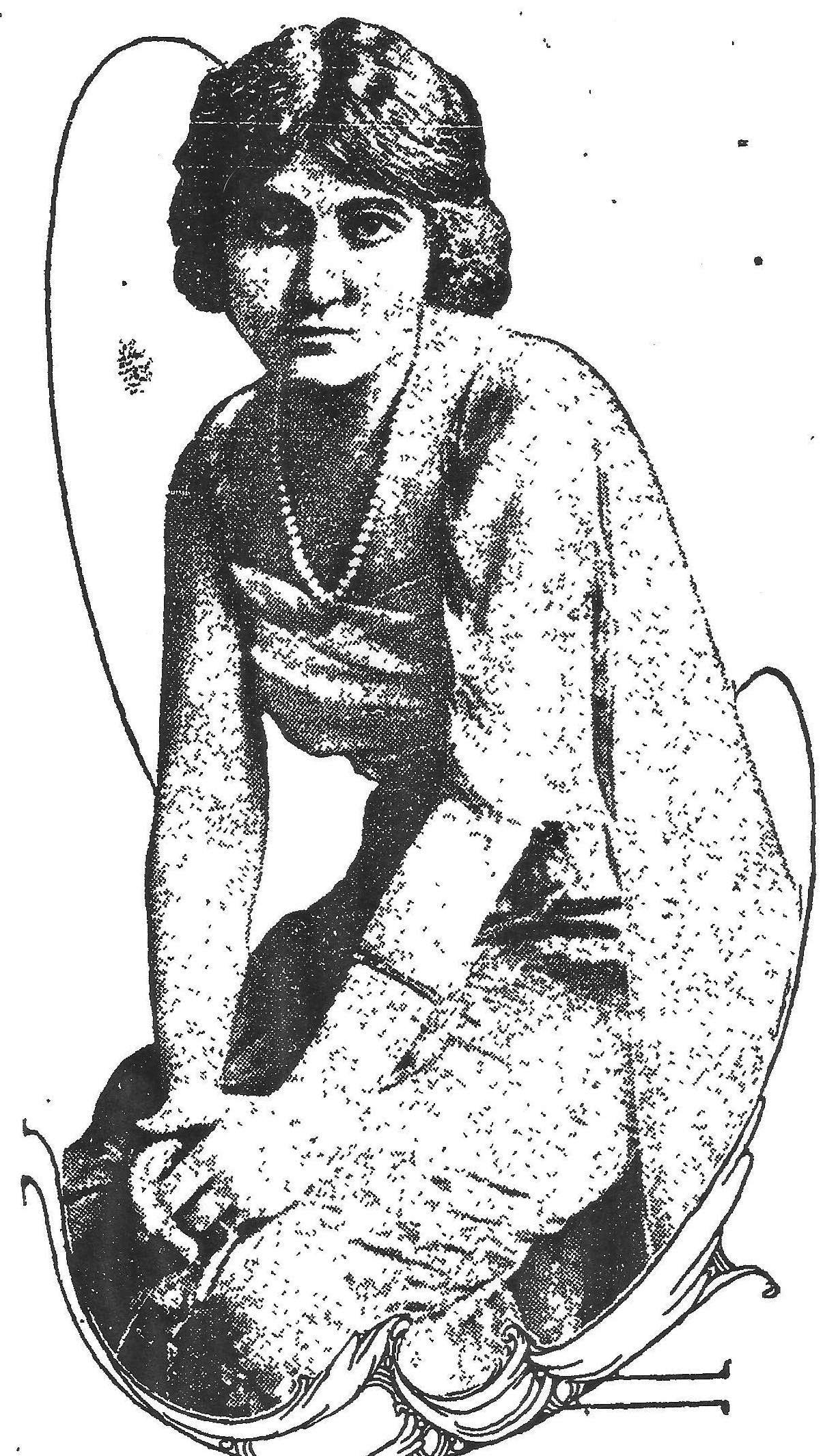 Image of Clara Williams